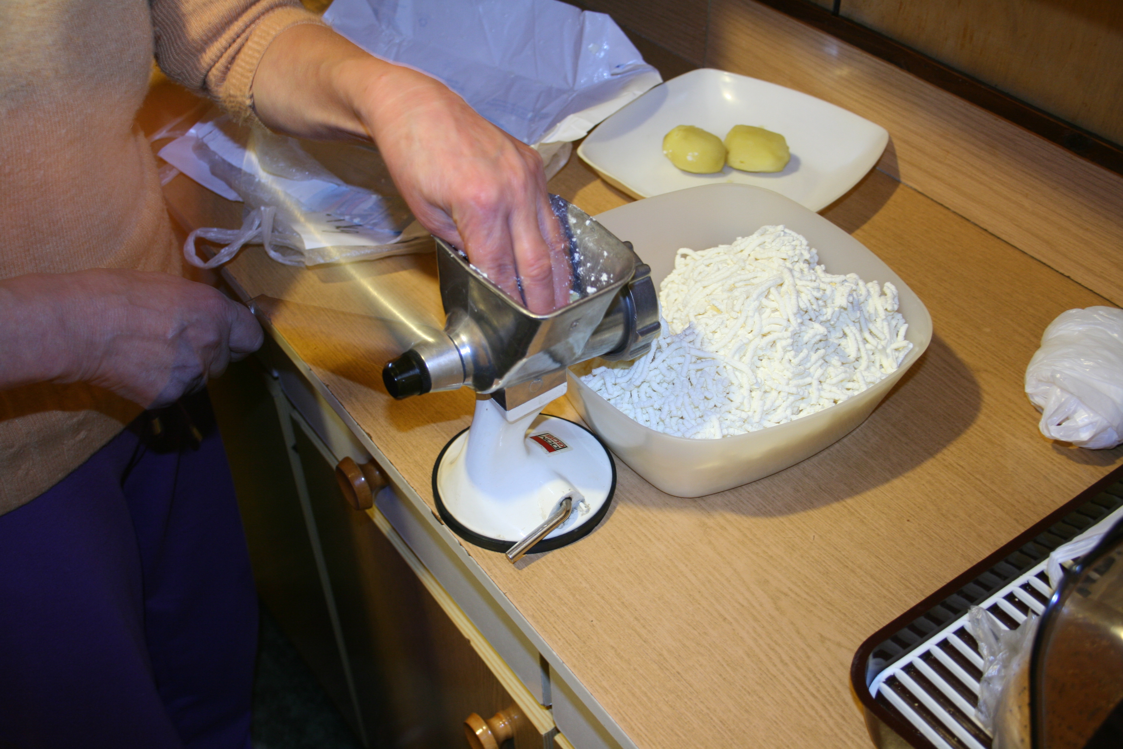 Sernik o Cheesecake, Polish cuisine, Gniezno, Polonia